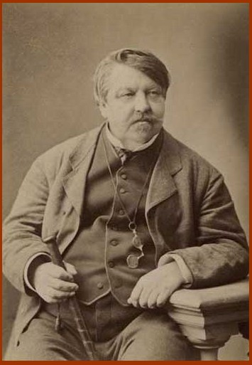 Photo of Pyotr Vasilyevich Schumacher (1817-1891), Russian obscene poet